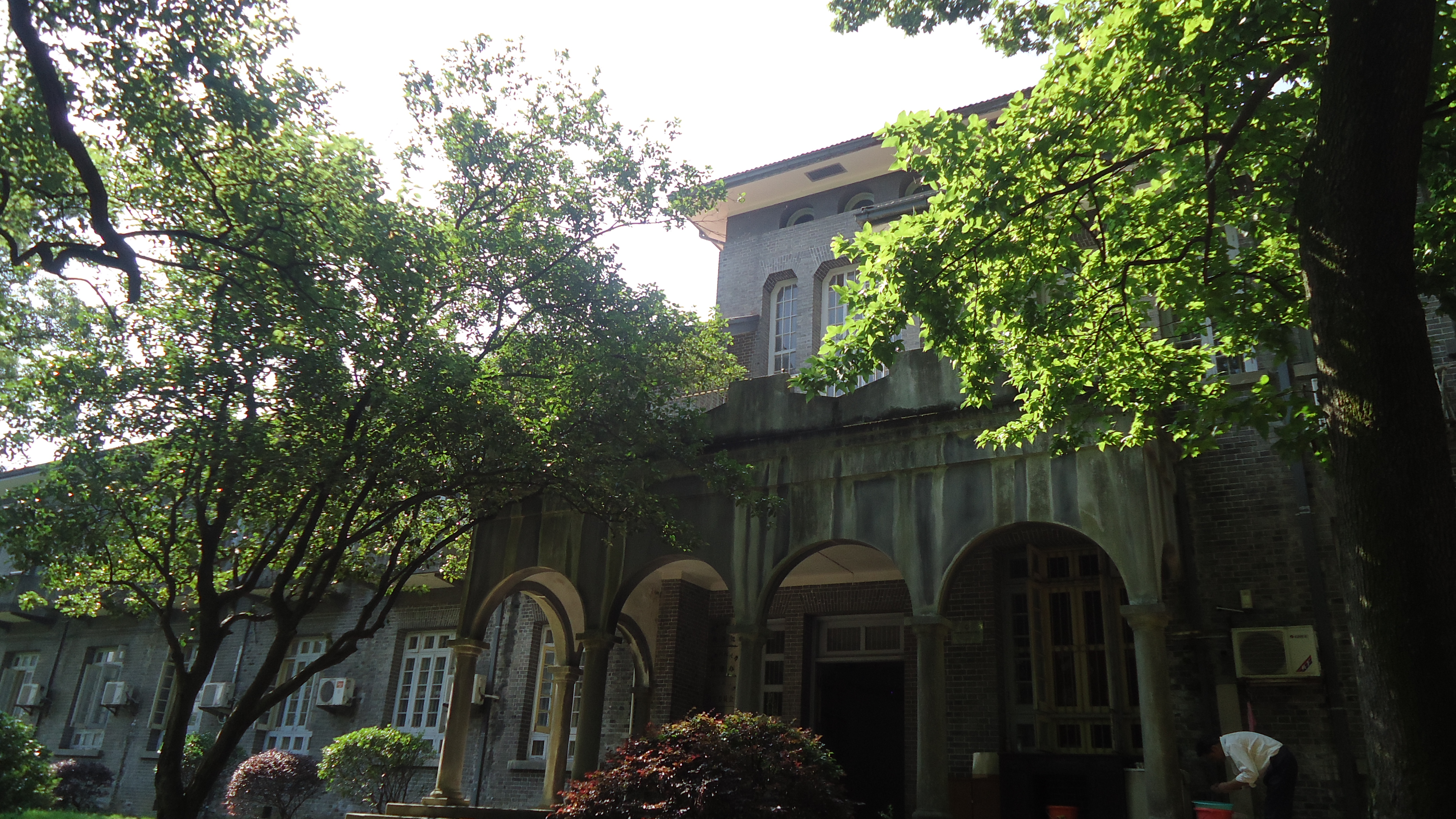 Hunan Normal University,founded in 1938, is a higher education institution located in Changsha, Hunan Province, People's Republic of China. The University is a national 211 Project university, one of the country's 100 key universities in the 21st century that enjoy priority in obtaining national funds.